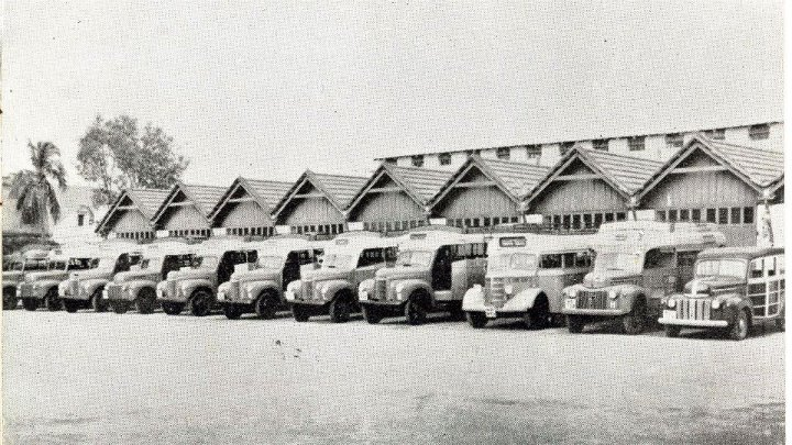 Old photo of Thrissur KSRTC Bus Station